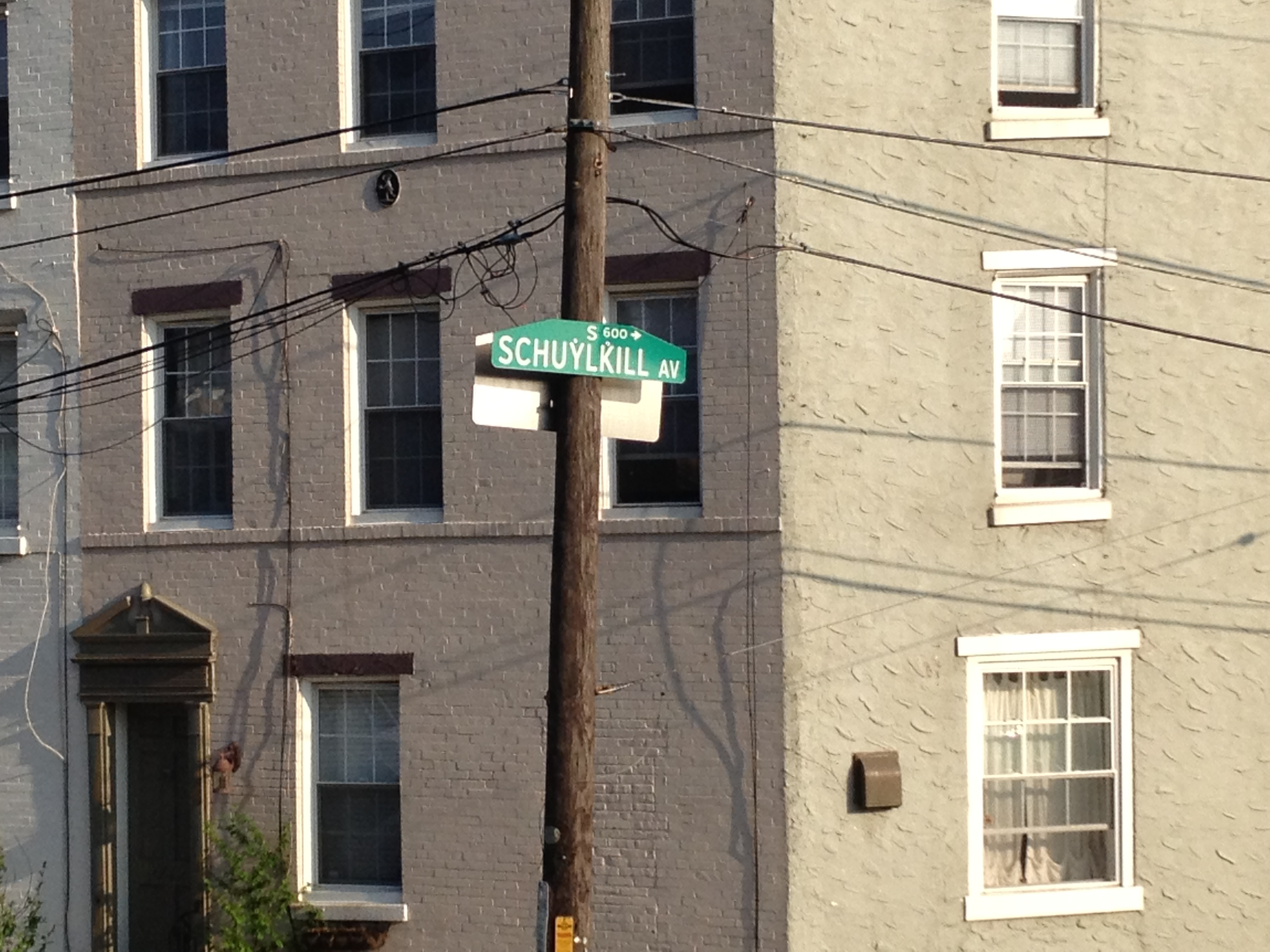 Schuylkill Avenue pic from my camera